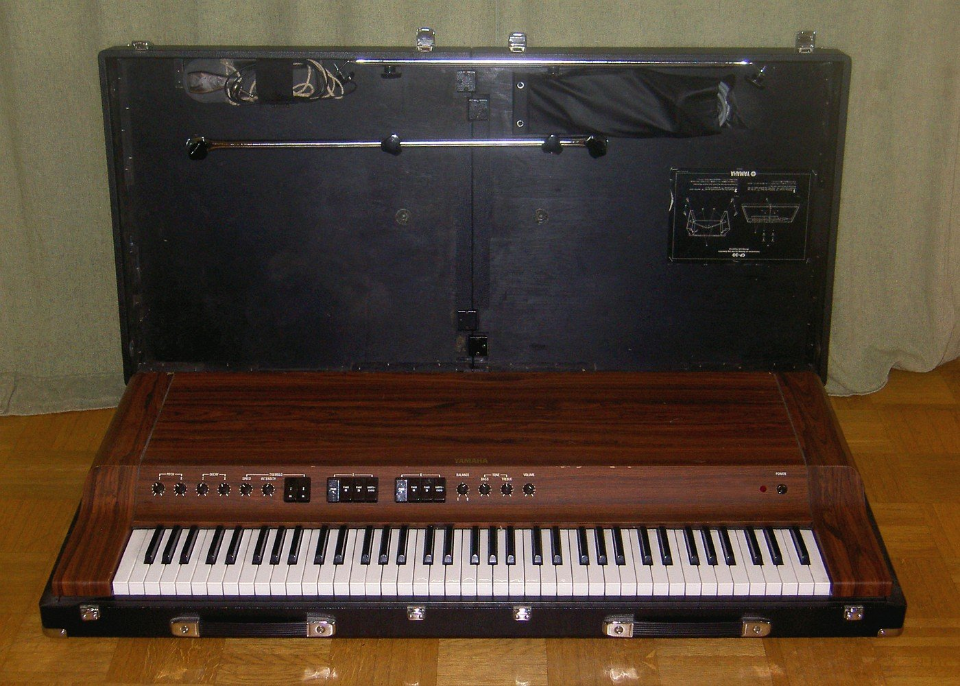 Yamaha CP-30, Cover opened